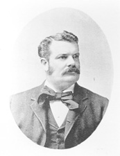 Portrait of Senator Nathan Fellows Dixon III of Rhode Island